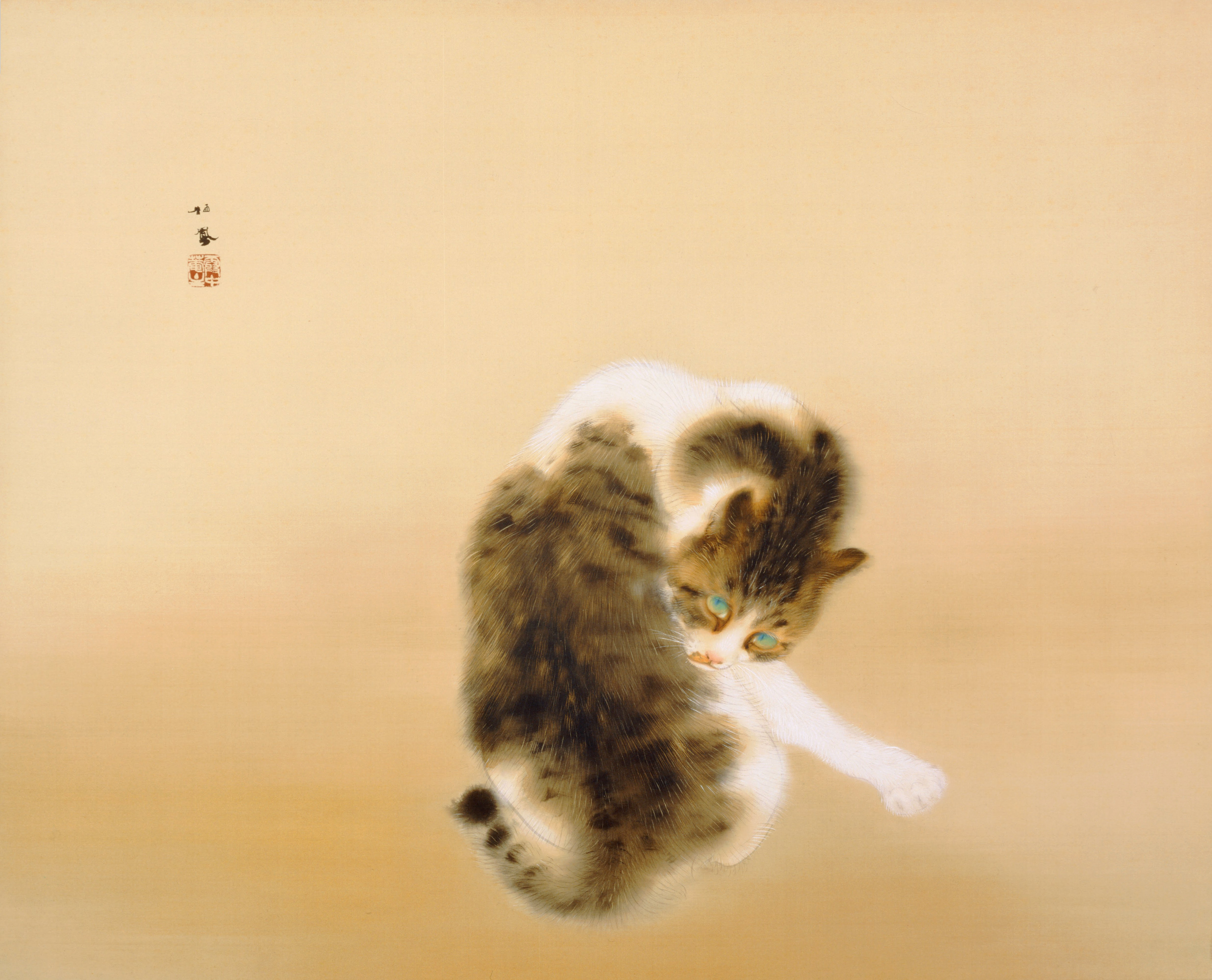 Tabby Cat. Type: colour on silk Dimensions: 81.9 cm × 101.6 cm (32.2 in × 40.0 in) Location: Yamatane Art Museum, Tokyo